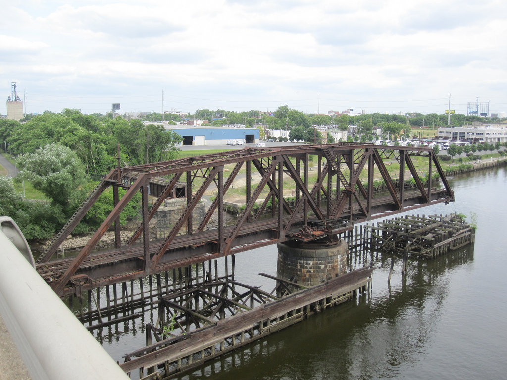 Photos taken on June 14, 2011 at Grays Ferry Crescent, part of the Schuylkill River Trail (Schuylkill).